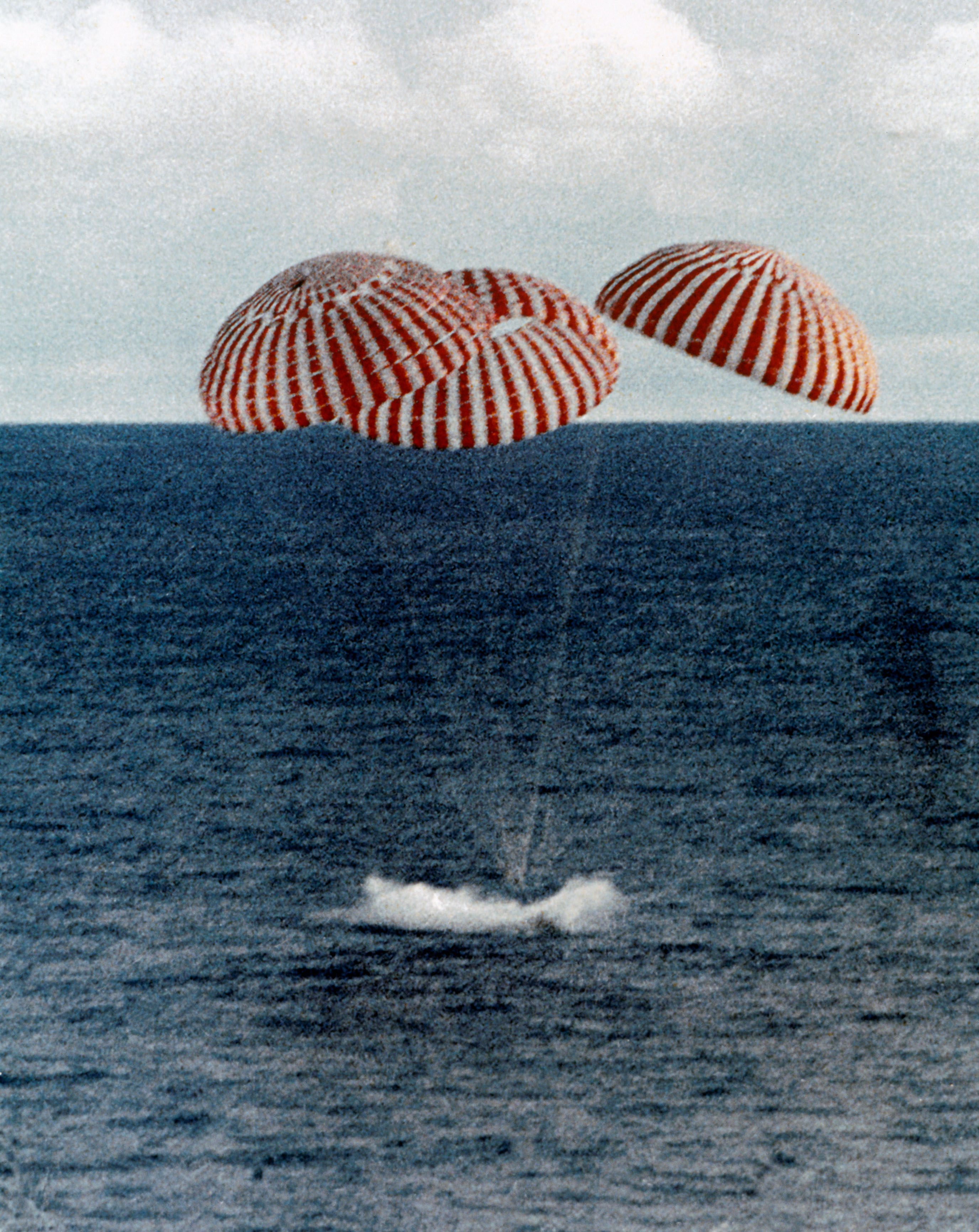 A perilous space mission comes to a smooth ending with the safe splashdown of the Apollo 13 Command Module (CM) in the South Pacific, only four miles from the prime recovery ship. The spacecraft with astronauts James A. Lovell Jr., John L. Swigert Jr., and Fred W. Haise Jr. aboard, splashed down at 12:07:44 p.m. (CST) April 17, 1970, to conclude safely the problem-plagued flight. The crewmen were transported by helicopter from the immediate recovery area to the USS Iwo Jima, prime recovery vessel.